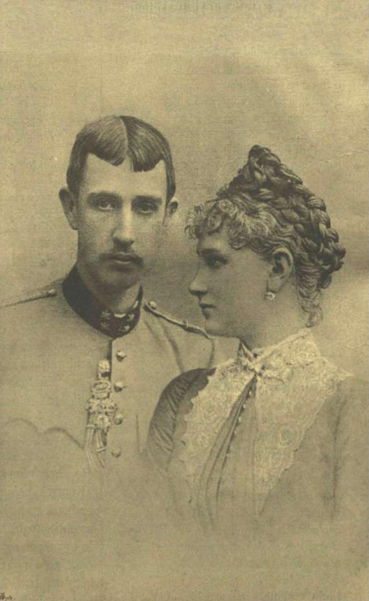 Archduke Otto Franz of Austria and his wife Princess Maria Josepha of Saxony